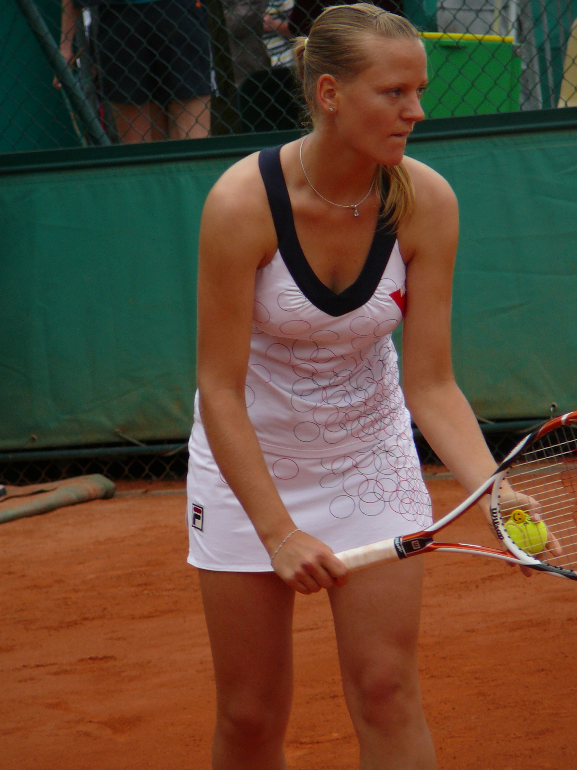 Ágnes Szávay at RG 2008